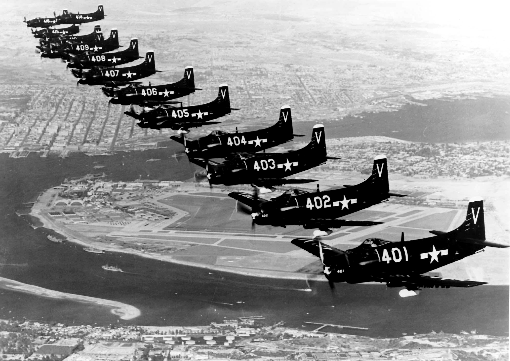 Fourteen U.S. Navy Douglas AD-2 Skyraiders of Attack Squadron VA-114 in flight over Naval Air Station North Island, California (USA), in 1949. VA-114 had been established as Bombing Squadron VB-11 on 10 October 1942 and was first land-based on Guadalcanal in 1942-43. In 1944-45 it served on the USS Hornet (CV-12), after the Second World War its parent Carrier Air Group 11 (CVG-11) was assigned to the USS Valley Forge (CV-45). The unit received the AD-2 in December 1948 but was already disestablished on 1 December 1949.Note: The Naval Aviation News identifies the squadron as VA-115, but VA-114 had the tail code "V-4XX", VA-115 had "V-5XX".